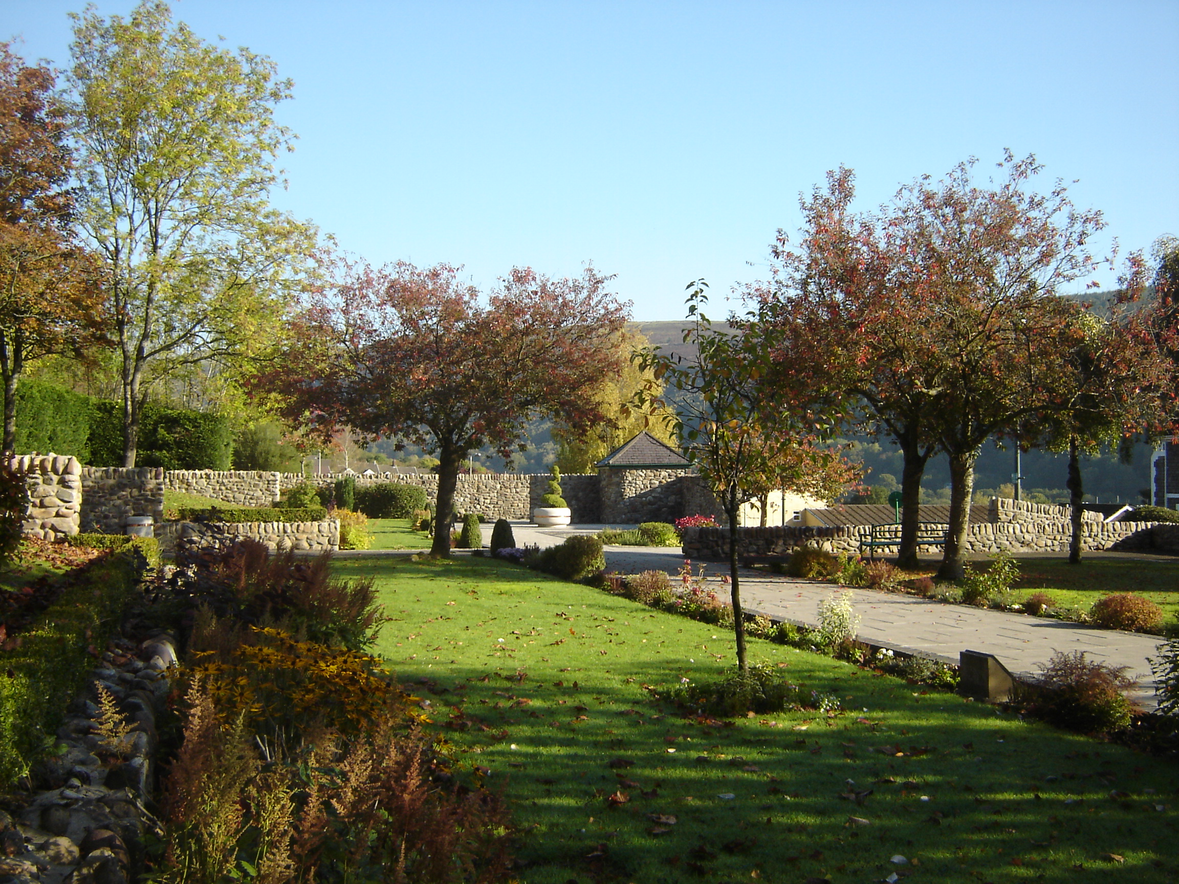 pantglas gardens